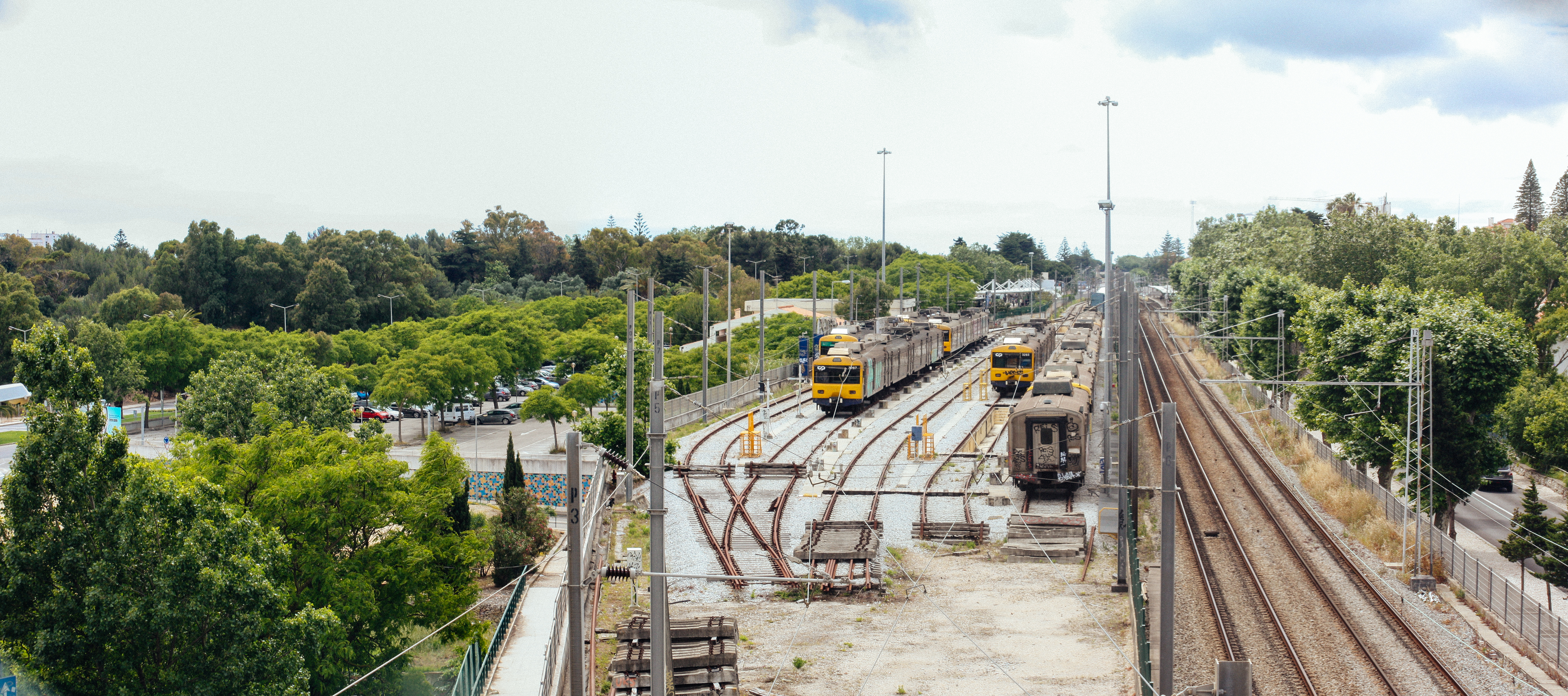 Linha de Cascais train depot at Carcavelos; Portugal